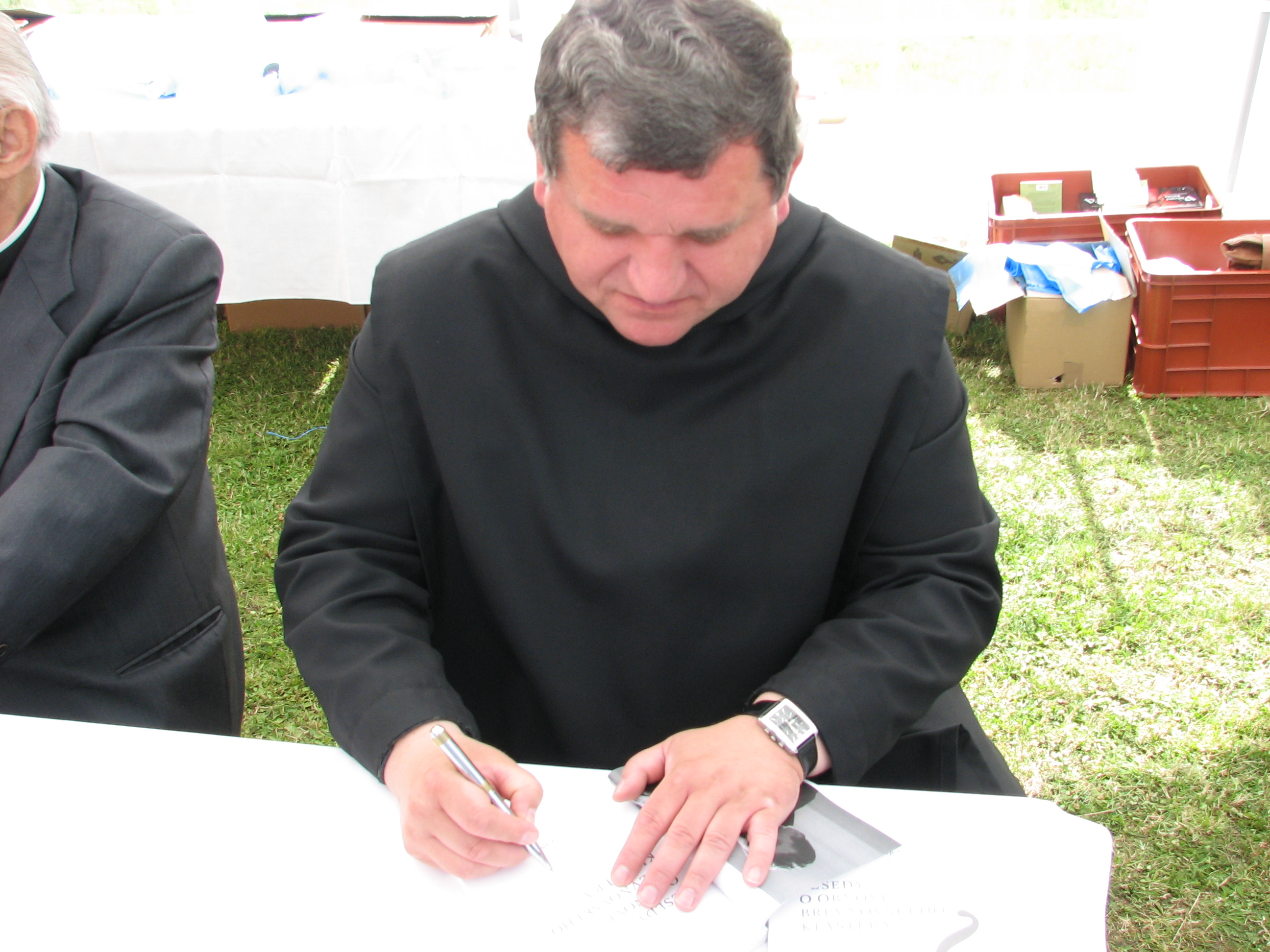 Prokop Siostrzonek1